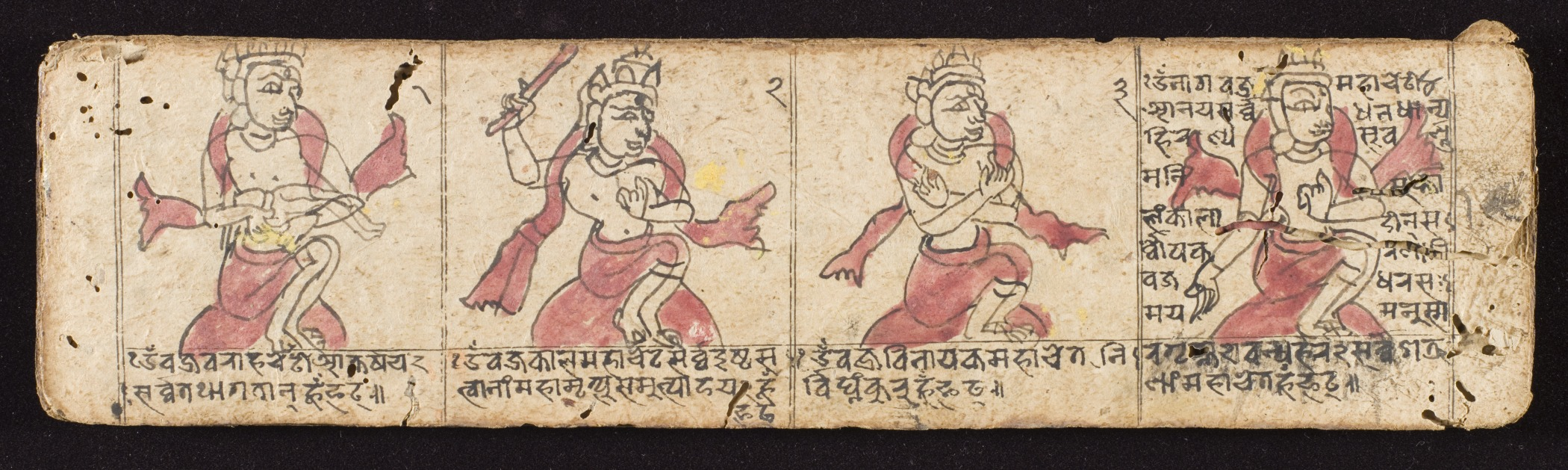 Nepal, circa 1730 Manuscripts Opaque watercolor and ink on paper 3 x 11 11/16 in. (7.62 x 29.7 cm) each Gift of Dr. and Mrs. Robert S. Coles (M.82.169.18.1-.18) South and Southeast Asian Art